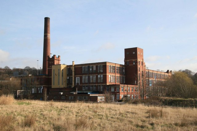 Ark Mill (aka Welkin Mill). This mill built 1906 for ring spinning apparently had a steam turbine driving a generator with electric machine drives. The power plant buildings are hidden round the back and I couldn't get to see them. There was a guy with a hi-vis vest sat in a car by the rear entrance. I wonder if this is a response to a recent ascent of the chimney by the urban exploration brigade.